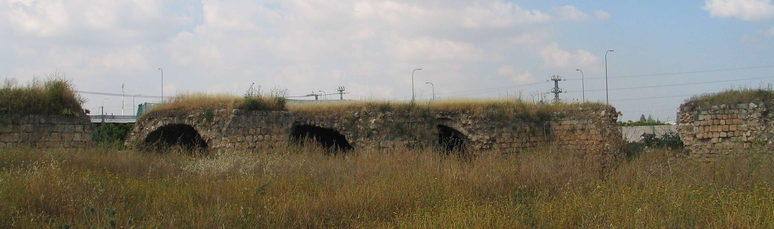 Mamluk khan (roadside inn), Jaljulia, Israel.